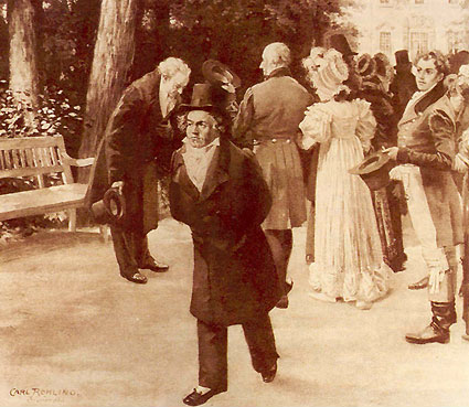 « The Incident at Teplitz » as depicted by Carl Rohling (Beethoven and Goethe meeting the imperial family, July 1812)